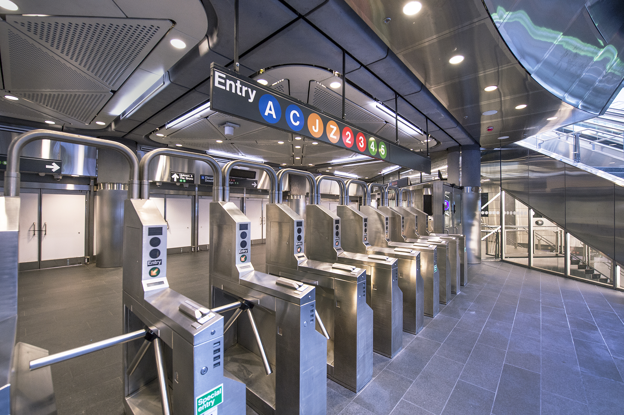 On Sunday, November 9, 2014, the MTA unveiled the Fulton Center, located at the crossroads of Lower Manhattan on Broadway between John and Fulton Streets. The transit and retail hub, encased in a glass and steel shell, will improve the commuter experience and will accommodate up to 300,000 daily riders using the 2 3 4 5 A C J Z and R lines. Photos: Metropolitan Transportation Authority / Patrick Cashin